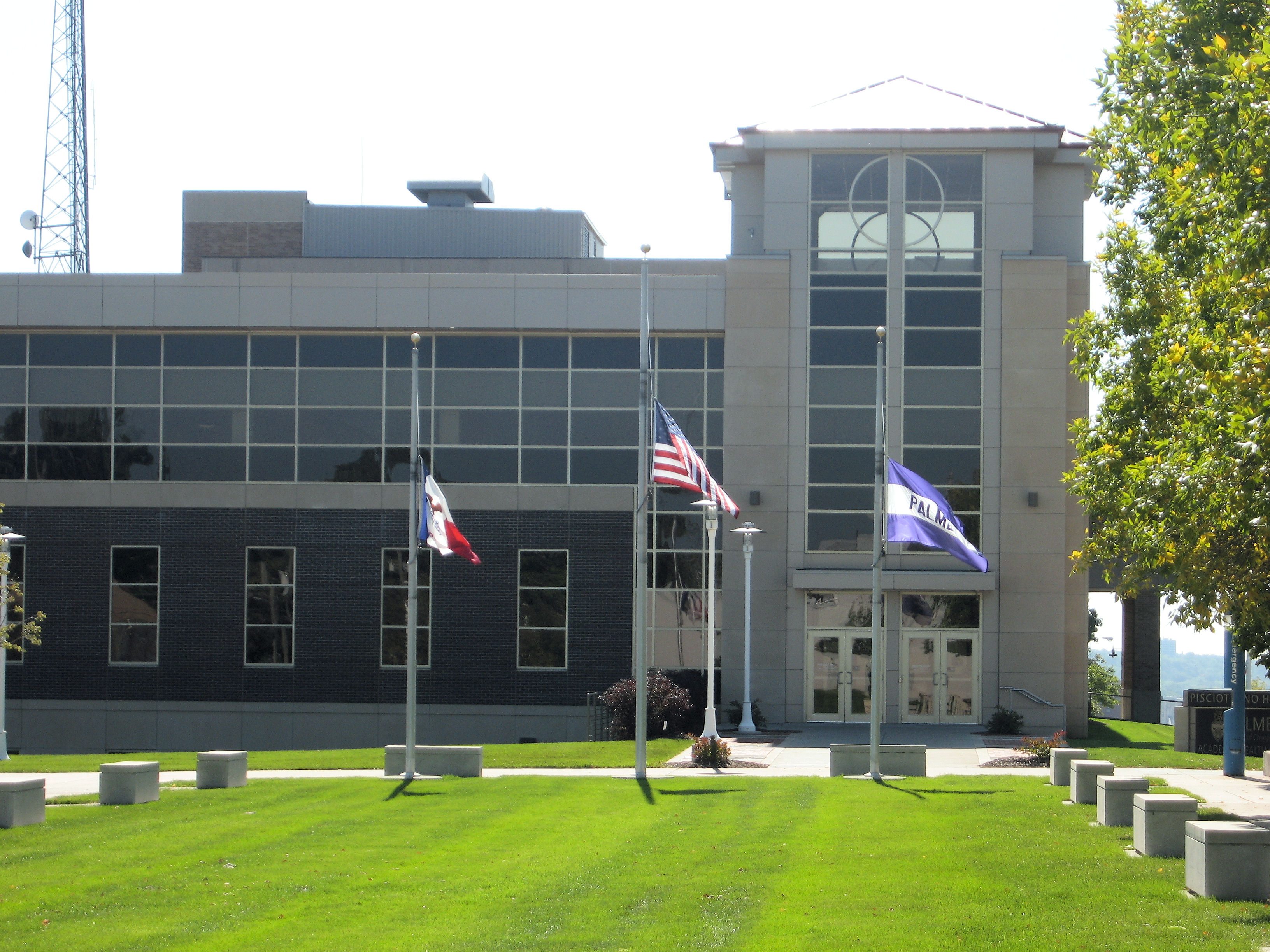 Clinic of Palmer College of Chiropractic.